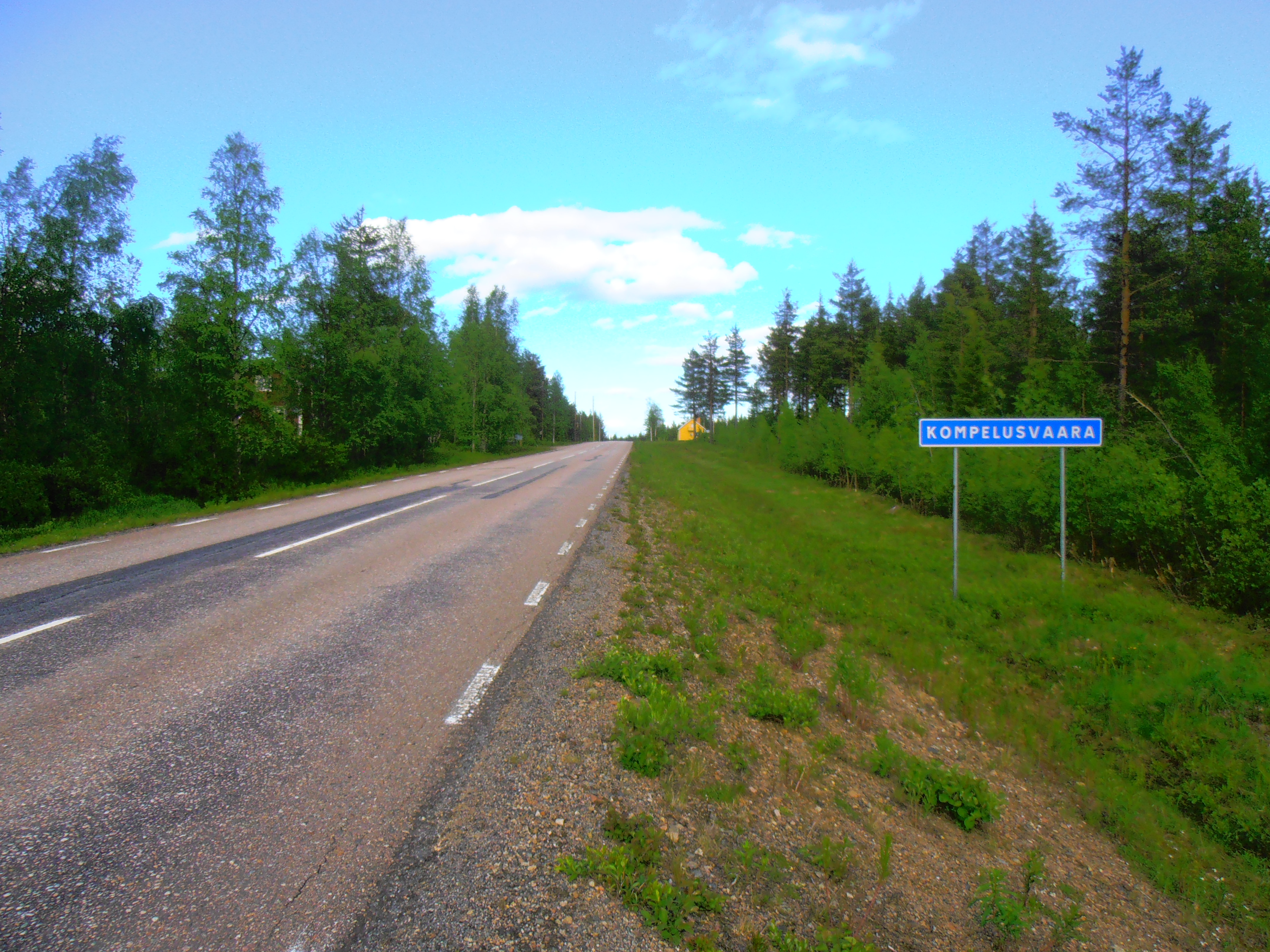 Kompelusvaara, Pajala